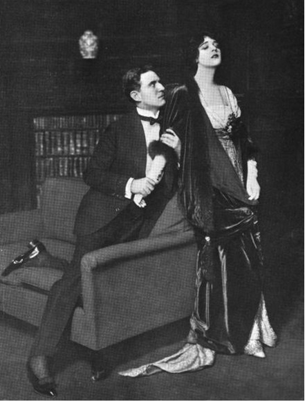 Orme Caldara and Jane Cowl in a scene from Act III of Bayard Veiller's Within the Law, performed at the Eltinge Theatre in 1912.